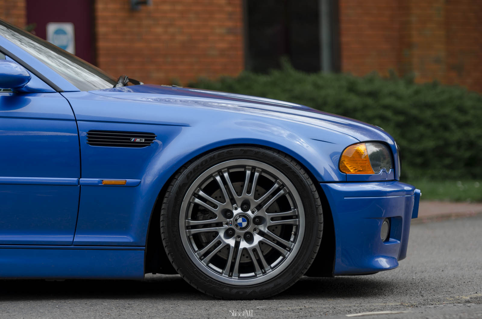 BMW E46 M3 in Estoril Blue lowered using HSD coilovers, picture by Micheal Evans